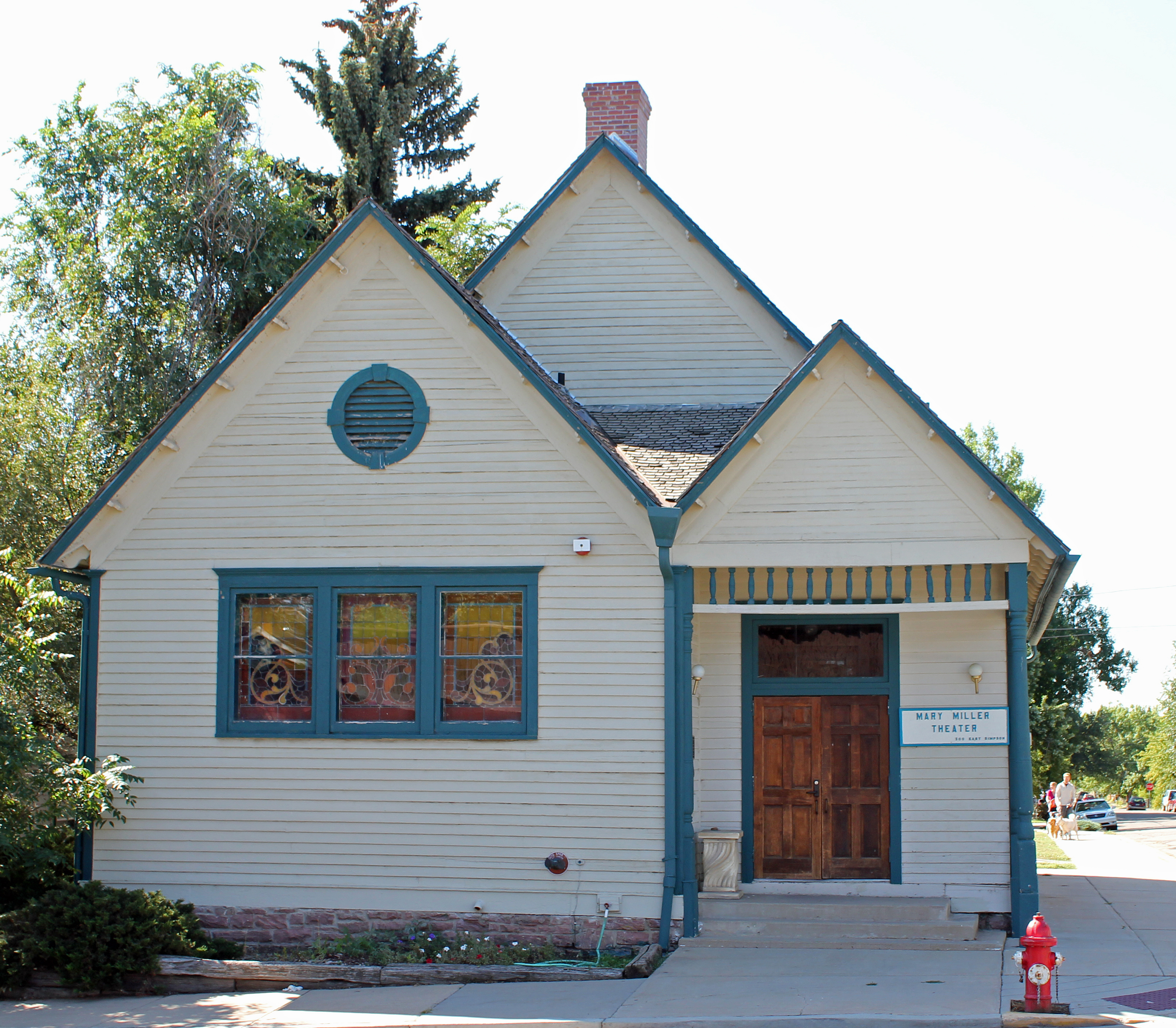 The Congregational Church, located at 300 East Simpson Street in Lafayette, Colorado. The property, now a theater, is listed on the National Register of Historic Places.